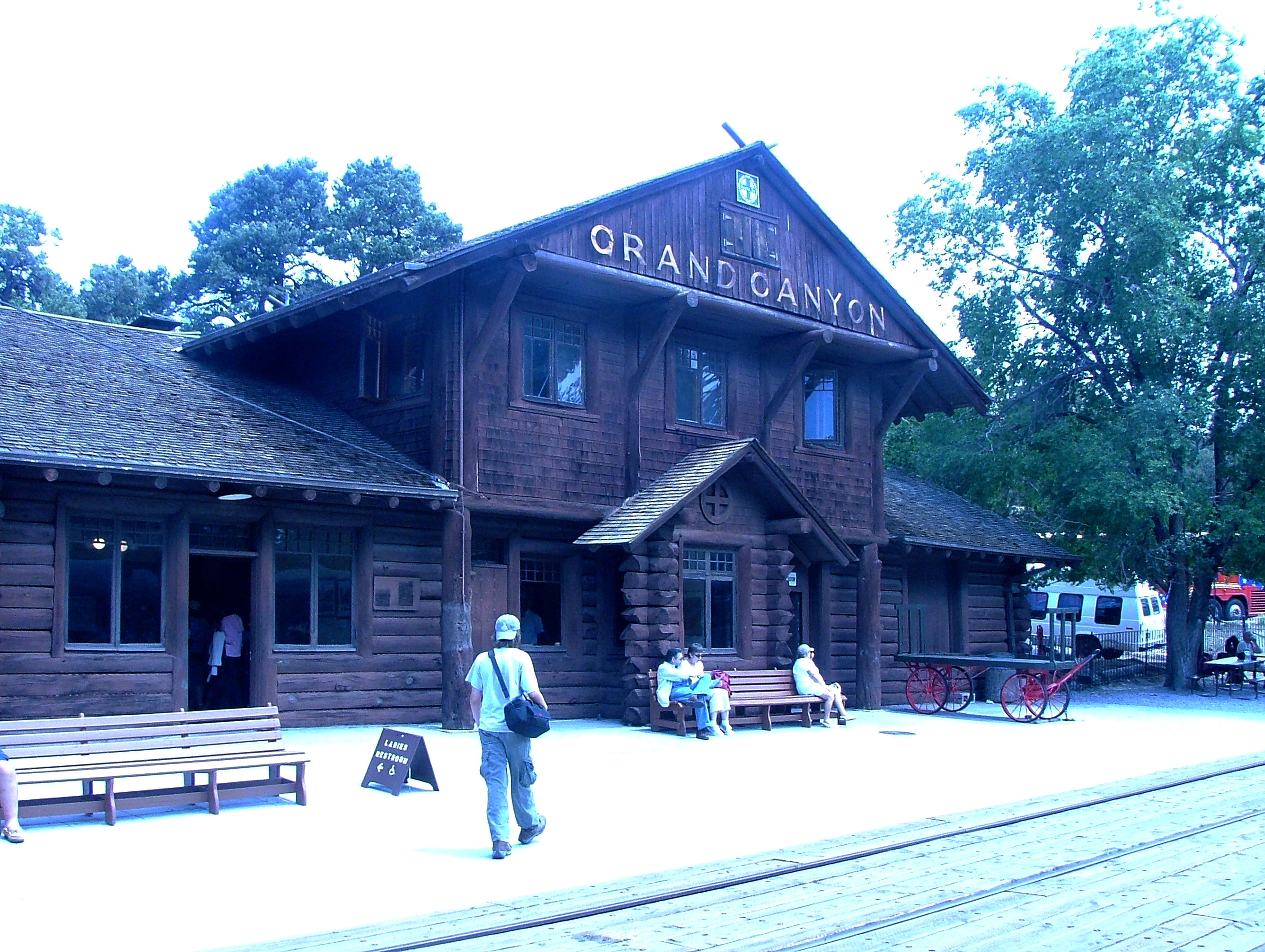 Grand Canyon Depot, Arizona. Northern terminus of Grand Canyon Railway.